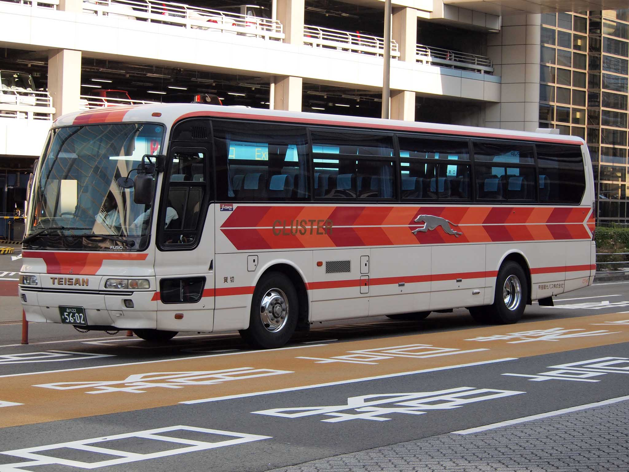 Fleet of Teisan Kanko Bus in Tokyo. Model: Mitsubishi Fuso Aero Bus KC-MS829 License plate: TKS22 KA5602 Place: Tokyo International Airport